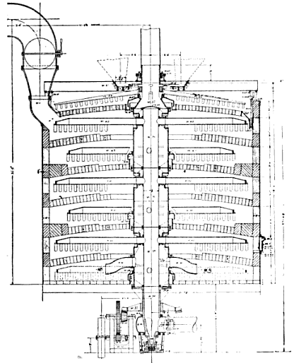 Herreshoff multiple-hearth furnace (chalcopyrite roaster) for copper smelting